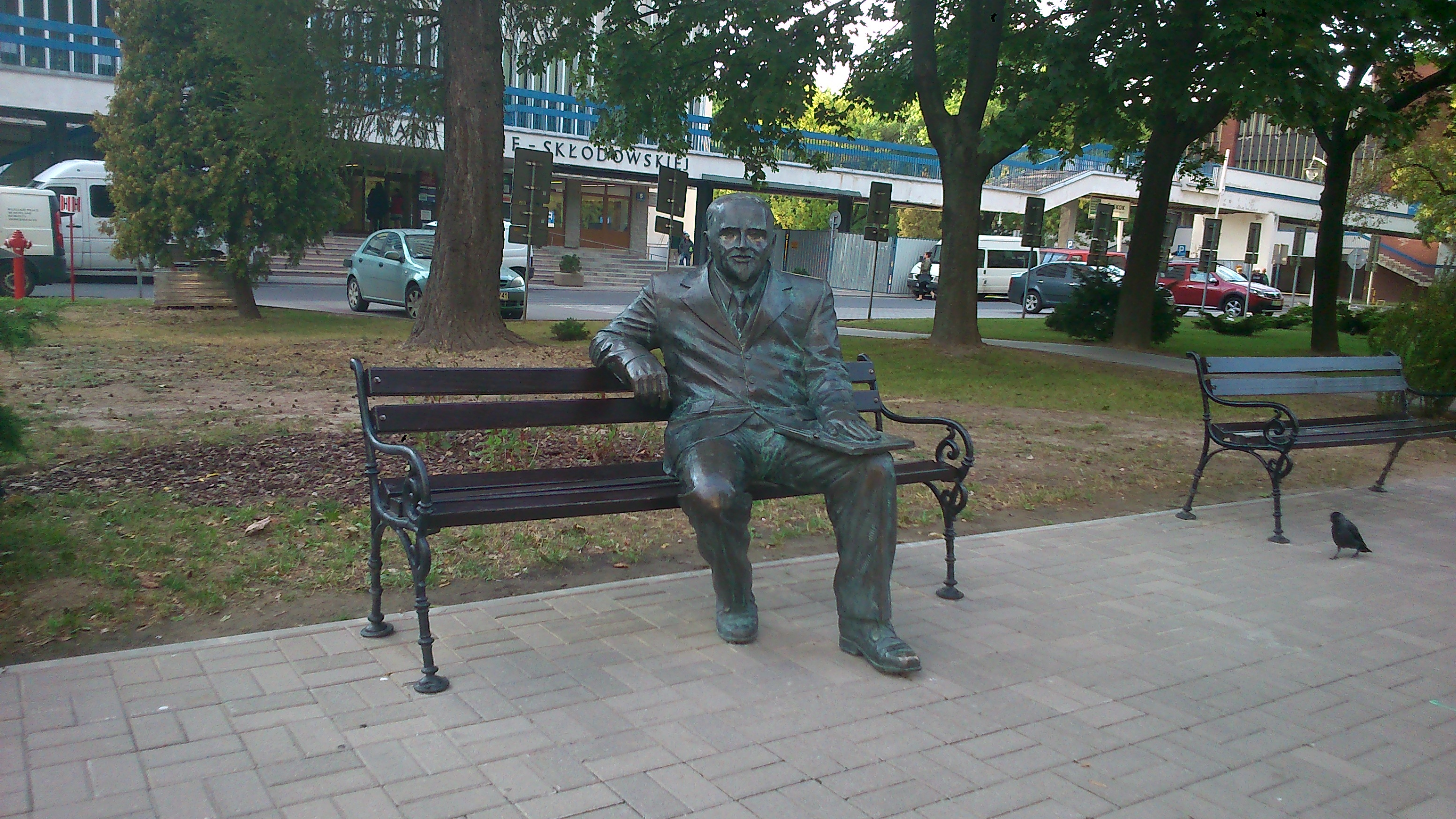 Bench memorizing prof. Henryk Raabe in campus, Lublin, Poland.